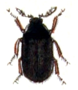 Ctesias serra, from Calwer's Käferbuch, Table 16, Picture 10. Taxonomy was updated to 2008, using mostly the sites Fauna Europaea and BioLib. Please contact Sarefo if the determination is wrong!